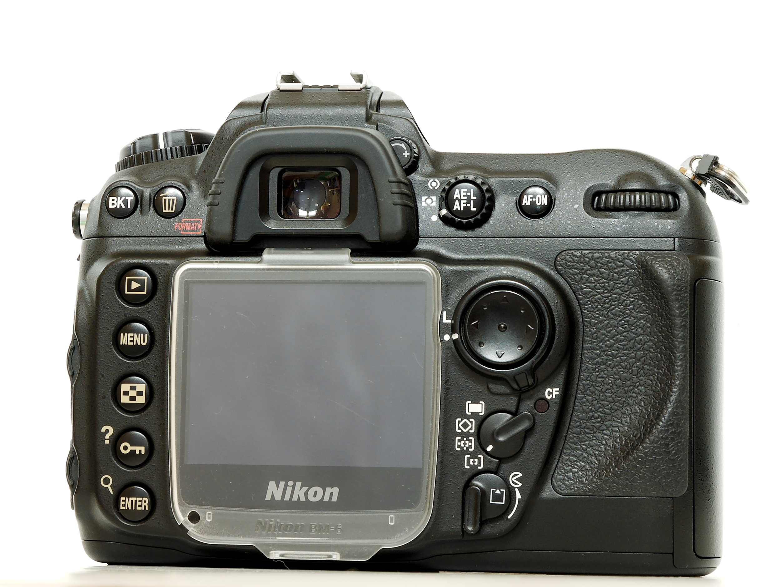 Back of the Nikon D200 dSLR.